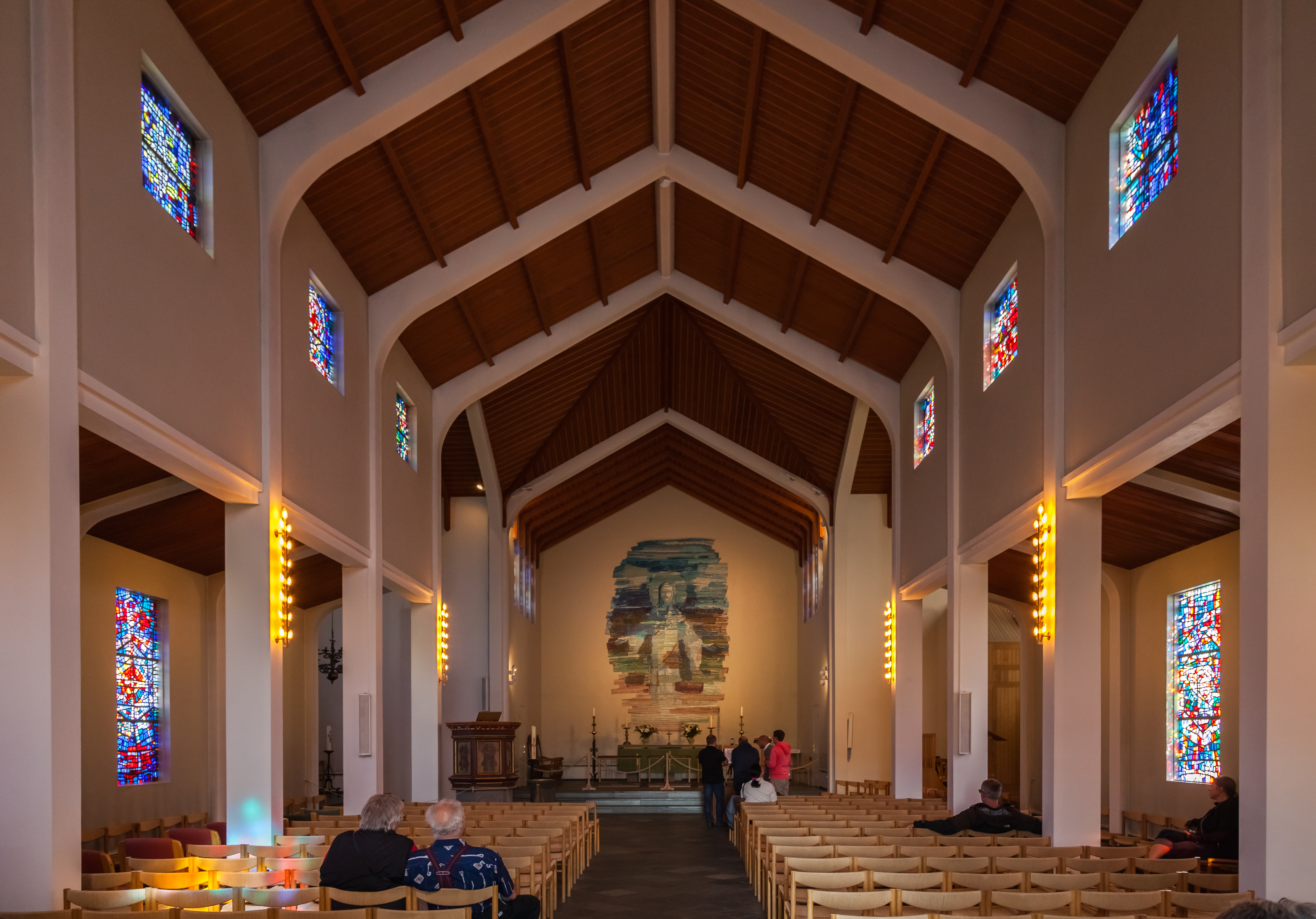 Skálholt cathedral, Suðurland, Iceland